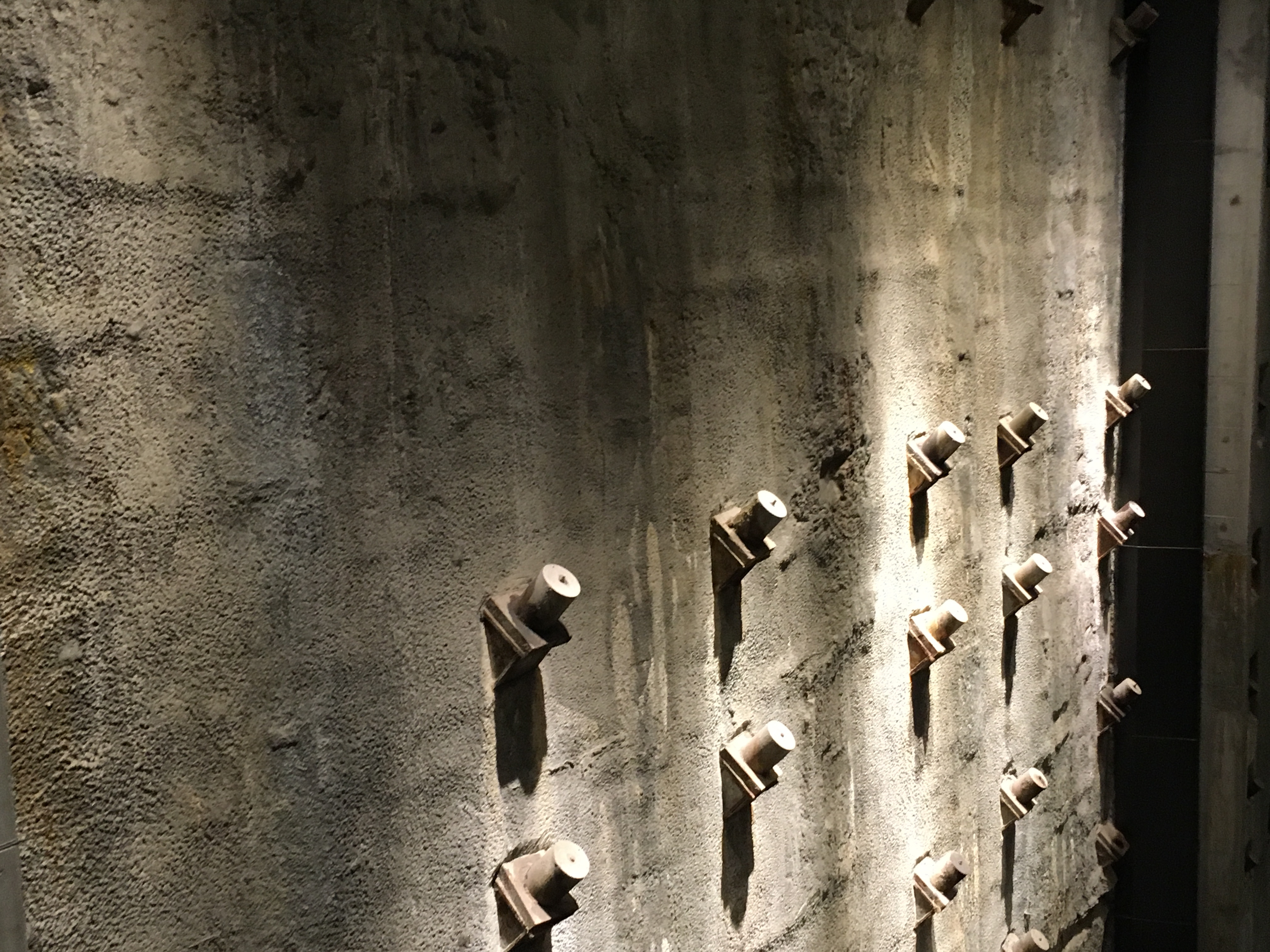 A surviving portion of the slurry wall that surrounded the foundation of the Twin Towers.